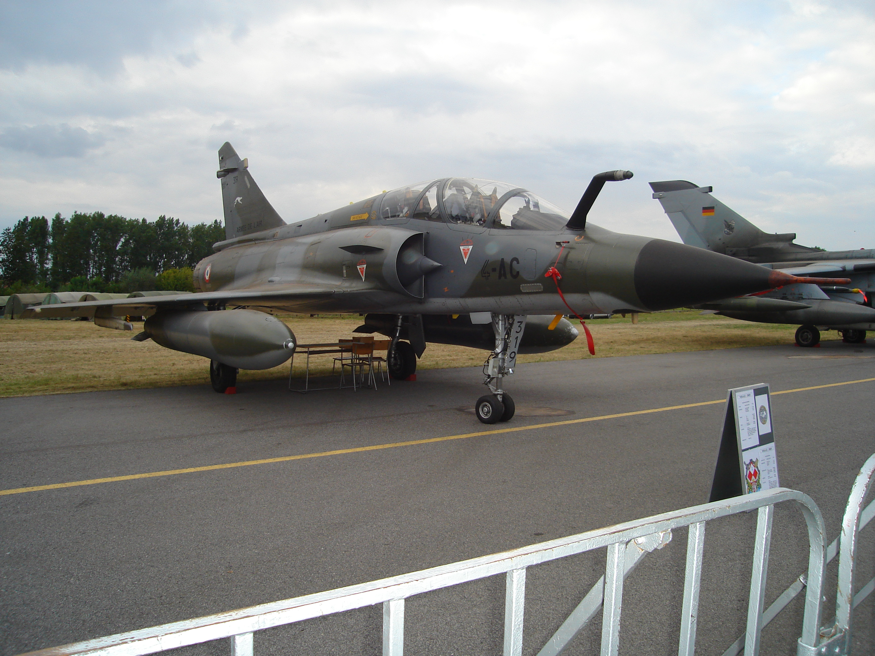 Picture of Dassault Mirage 2000N, Radom Air Show 2007